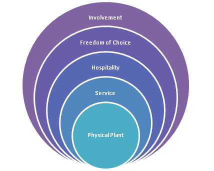 toote 5 komponenti